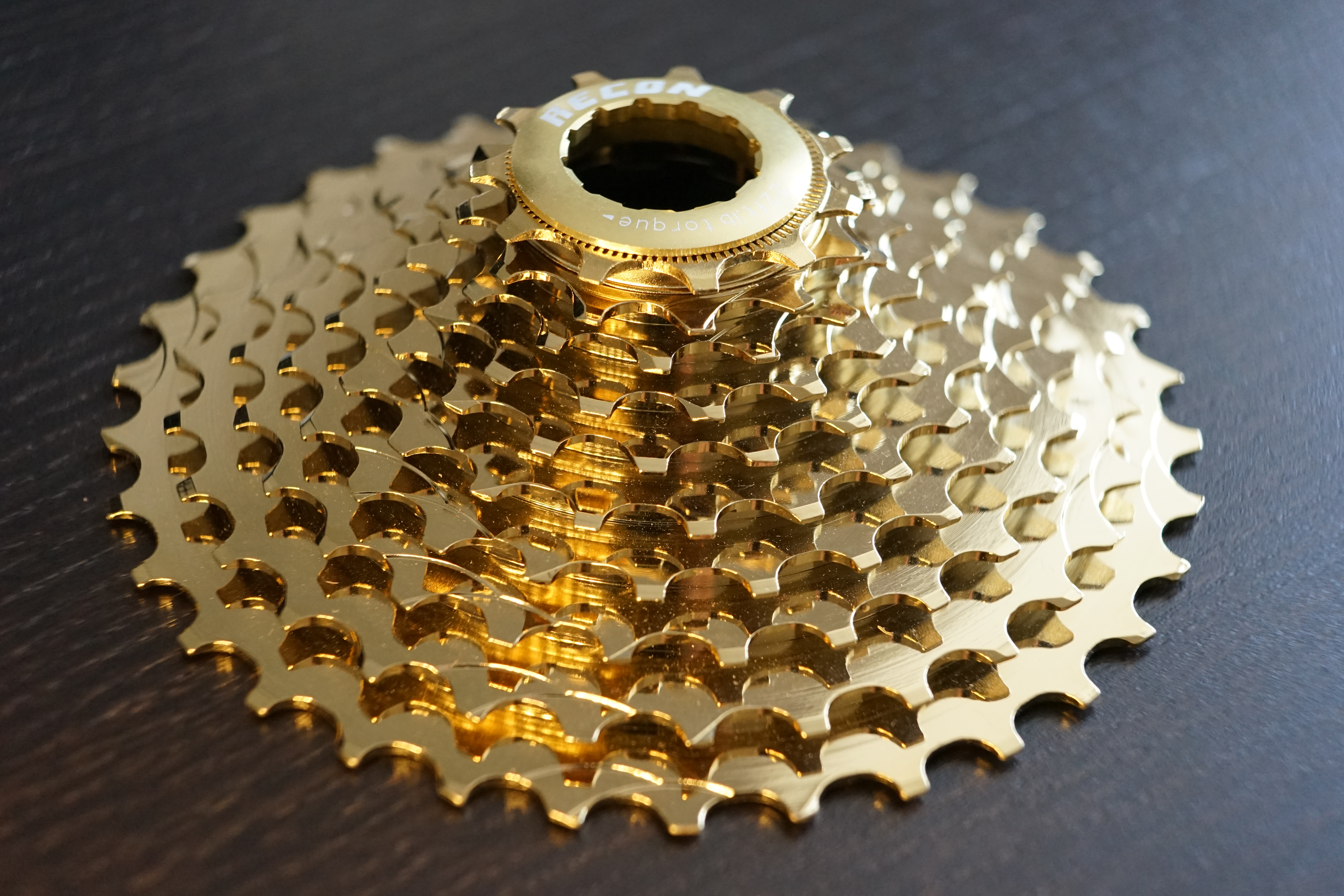 A Recon bicycle cassette model RHG-MS10, 10-speed, 11-34T: 11-12-13-15-17-20-23-26-31-34, 145 g